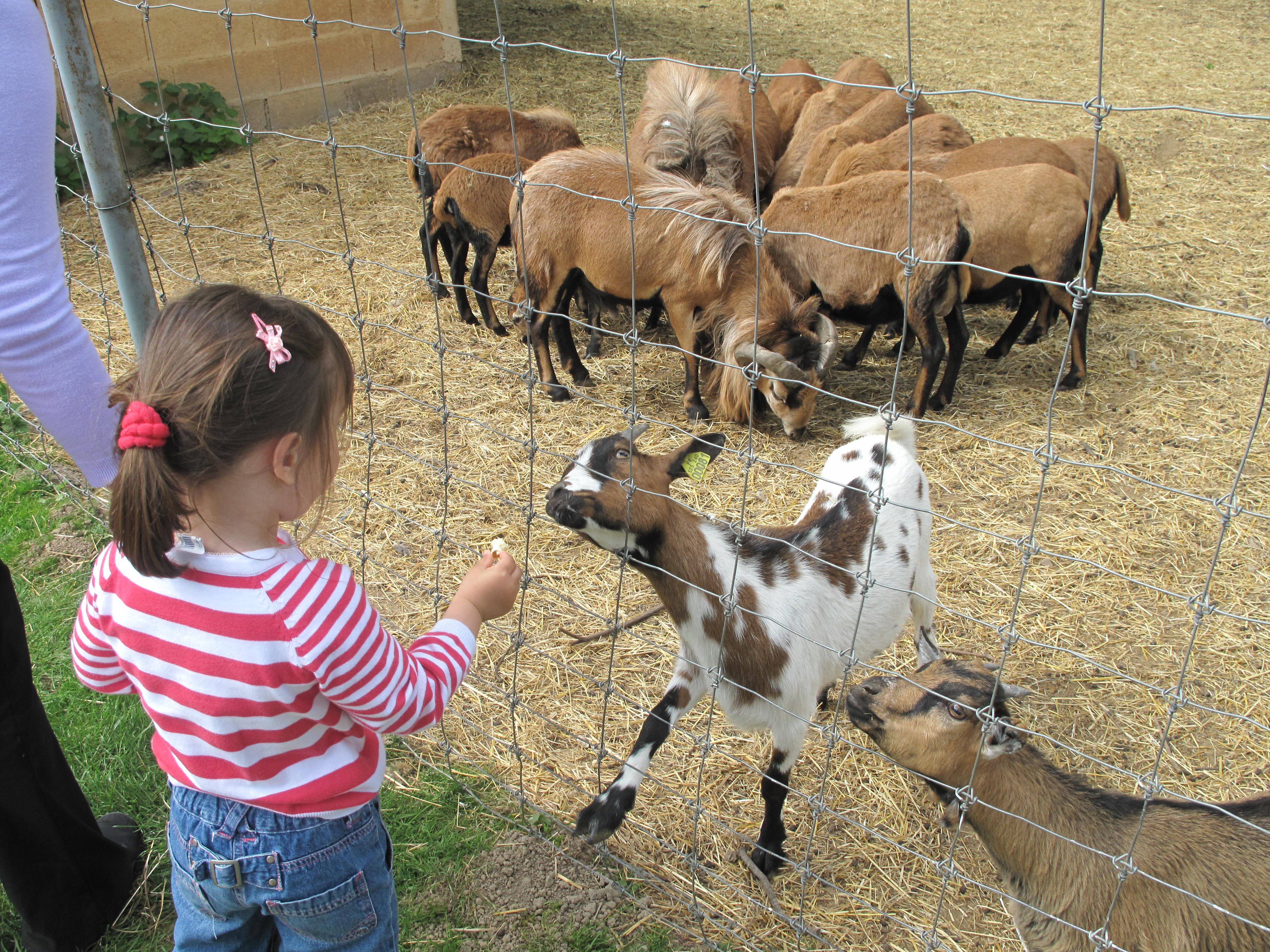 Goats at the zoo of the bois d'Attilly (Seine-et-Marne, France).